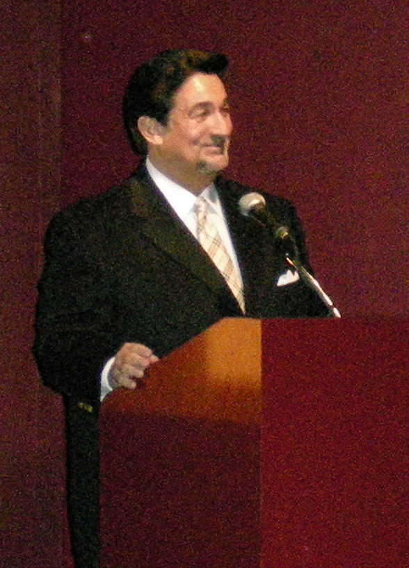 Ted Leonsis at the Tech Council of Maryland event at the Washington Capitals vs Ottawa Senators at Verizon Center